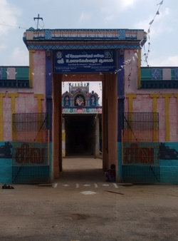 Konerirajapuram umamaheswarar temple கோனேரிராஜபுரம் உமாமகேஸ்வரர்கோயில்